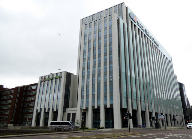 Scottish Power building